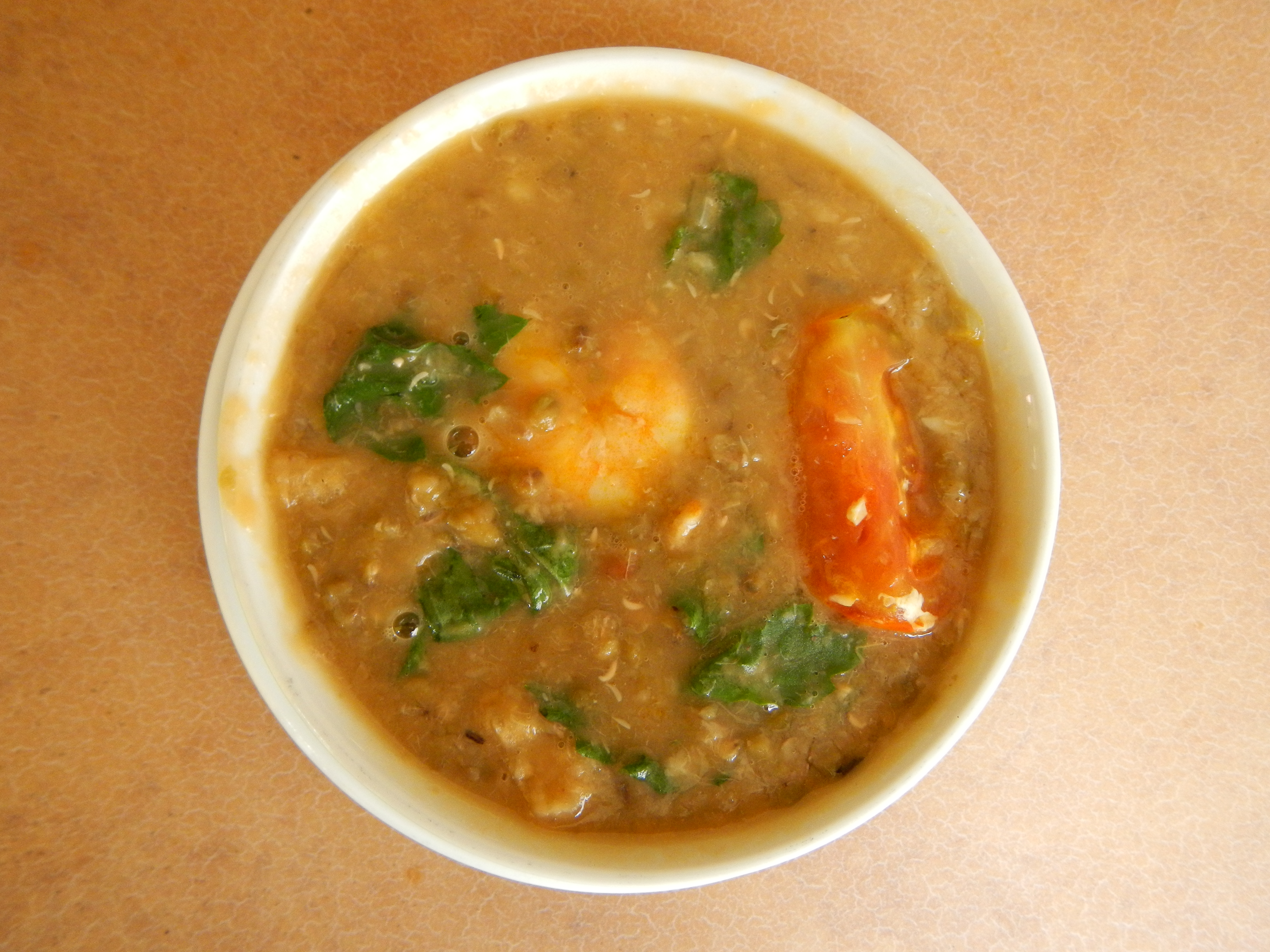 [1] Mung bean with ampalaya and shrimps